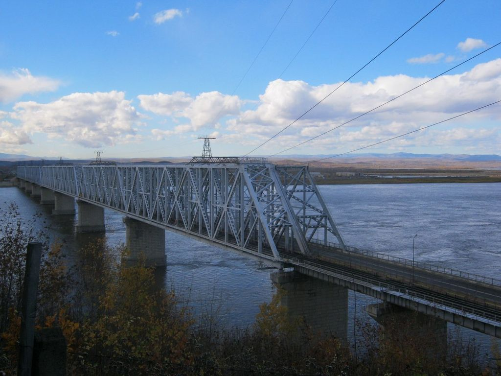 The bridge crossing over the Amur River near Komsomolsk-on-Amur